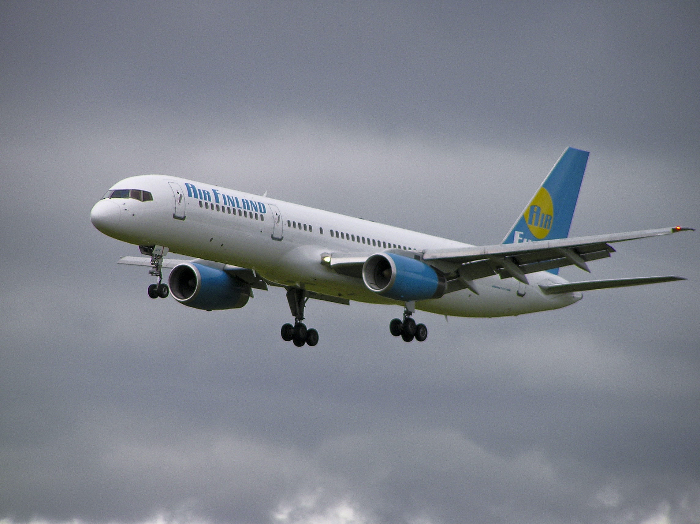 Boeing 757-28A, registration OH-AFI or OH-AFK